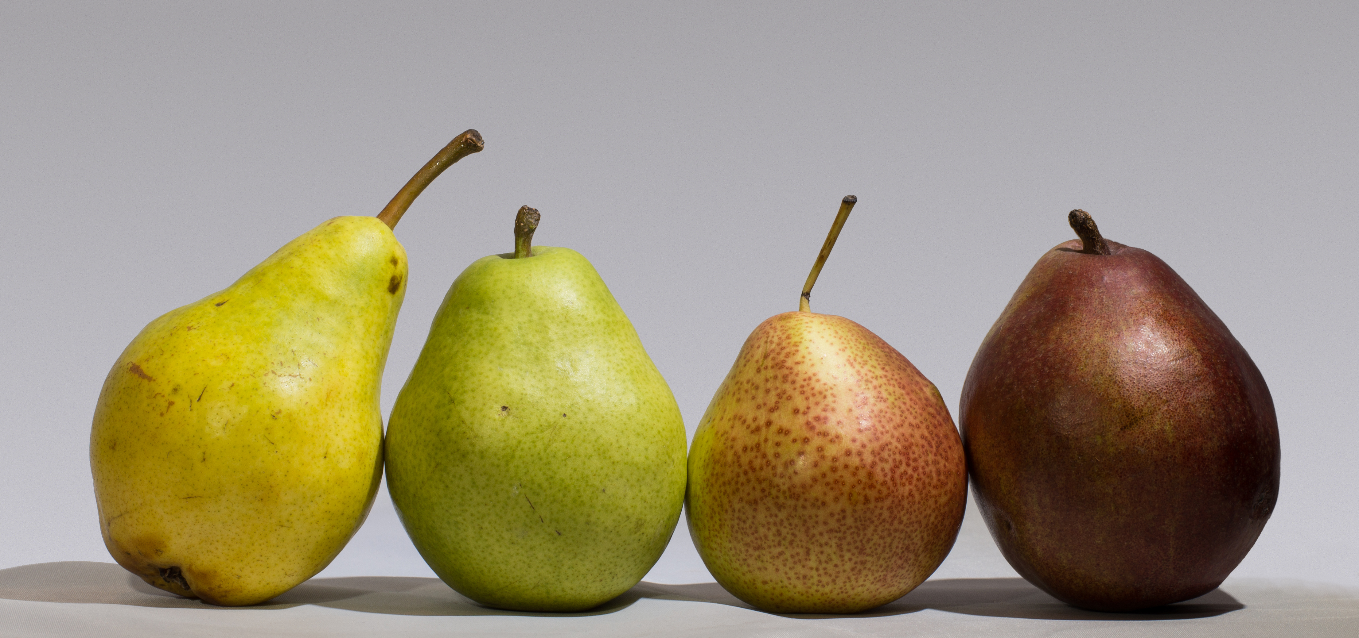 Four pears: green Bartlett (Williams), D'Anjou, Forelle, and red Bartlett (Williams)